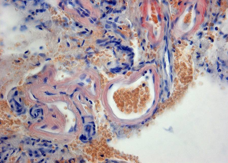 Histopathology of cerebral amyloid angiopathy. Deposition of amyloid (red) in hyalinized vessel wall on congo-red staining.